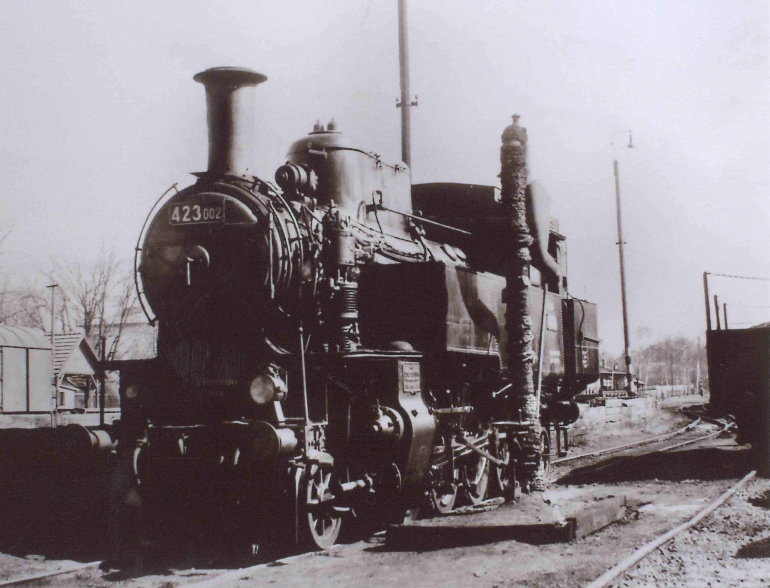 locomotive 423.002 in Brandys